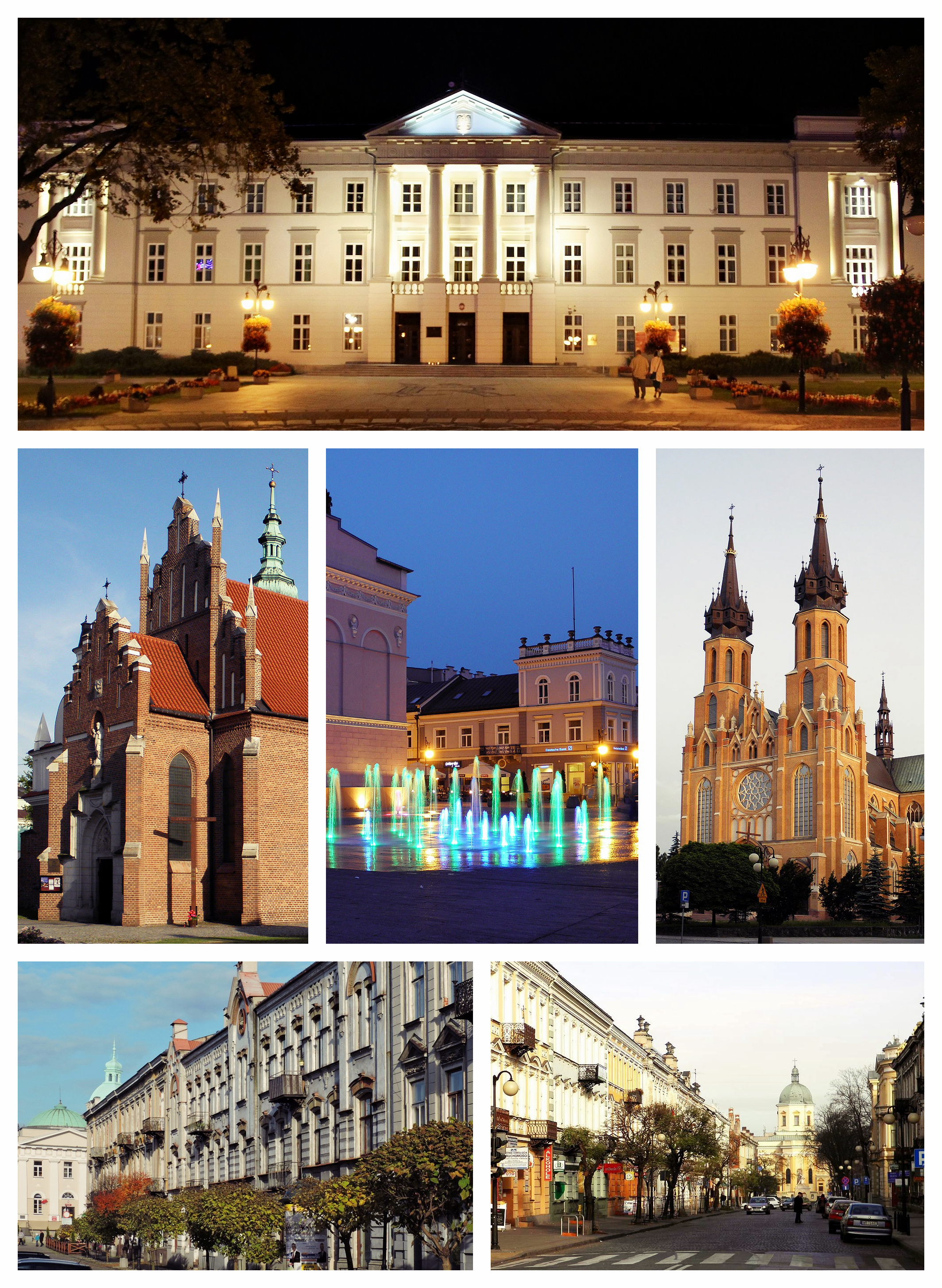 Radom - Montage of photos available on Wiki Commons: File:Building of city council by night 1 - Radom (HDR).jpg by Voytek S File:Radom - Katedra Opieki NMP7.jpg by Rafał T File:Radom.Zespół klasztorny bernardynów 01.jpg by Rafał Terkner File:Plac przed budynkiem Towarzystwa Kredytowego Ziemskiego nocą - widok w kierunku ściany szczytowej domu Podworskich.jpg by Rafał T File:Ulica Stanisława Moniuszki w Radomiu - widok w kierunku ulicy Stefana Żeromskiego.jpg by Rafał T File:Radom - fotopolska.eu (266382).jpg by Rafał T